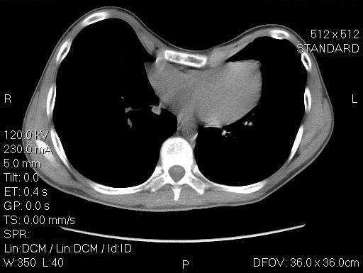 A CT scan of a 14 year old male with severe pectus excavatum